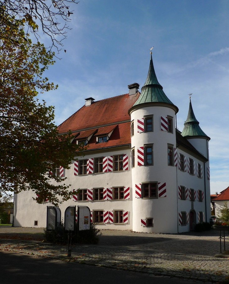 Amtzell ~ Castle